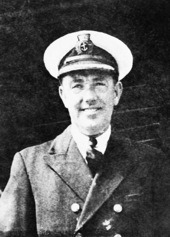 Portrait of Thomas Wilkinson, awarded the Victoria Cross: HMS LI WO, Java Sea, 14 February 1942.